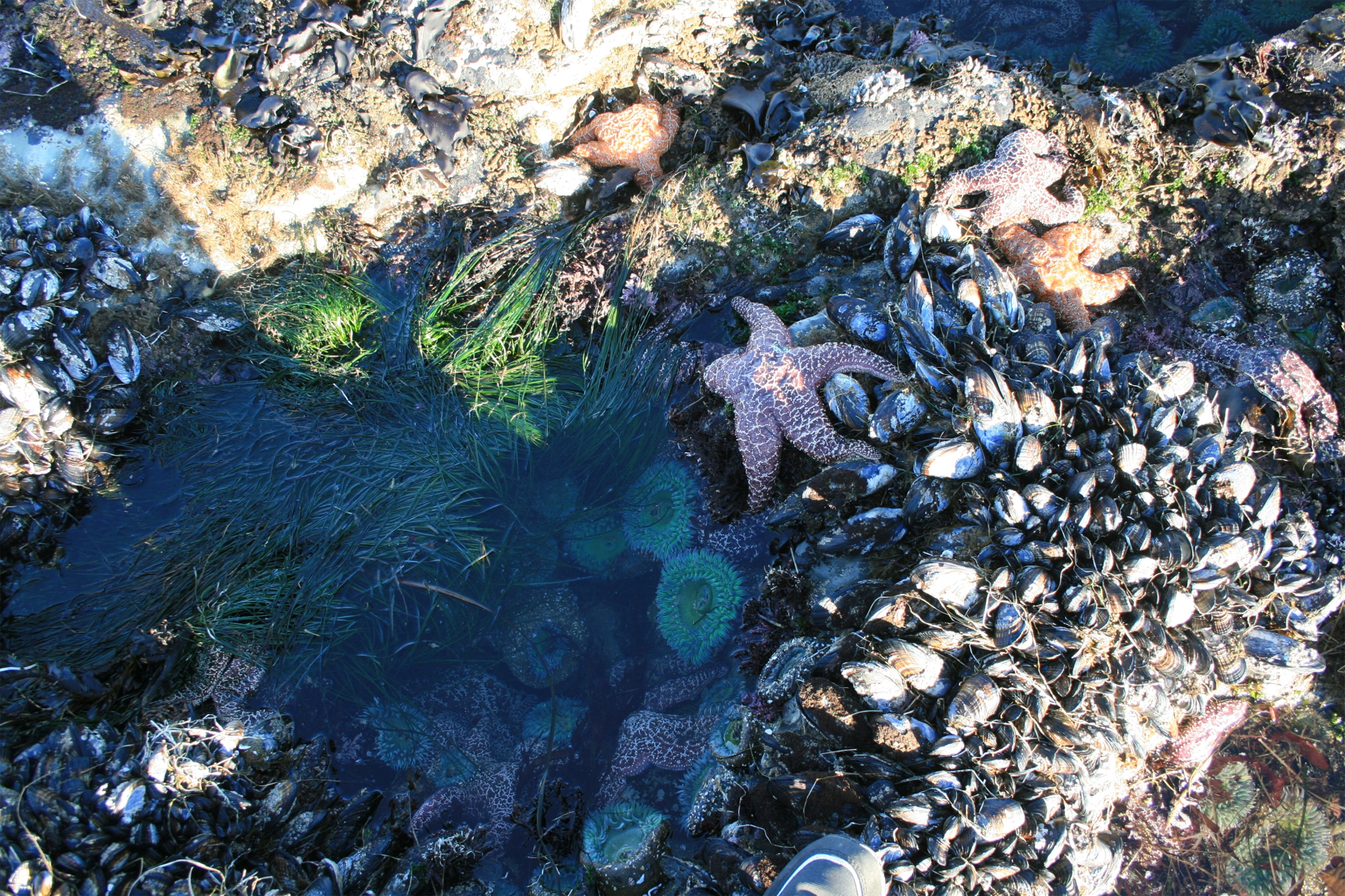 Tidepoosl in Santa Cruz